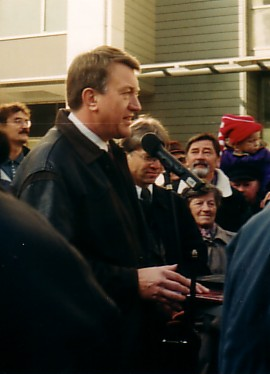 Ralf Rauch, mayor of Gera, Germany, from 1994 to 2006), speaking at the openig ceremony of the central bus terminal in Heinrichstraße, Gera